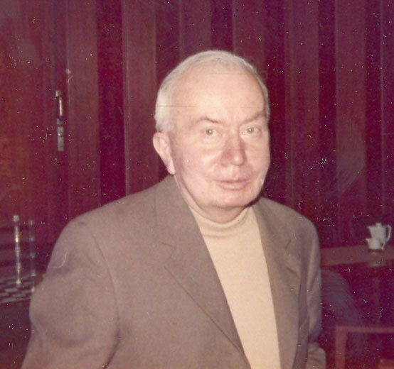 Hermann Albrecht - chess composer and author of the well-known twomover collection